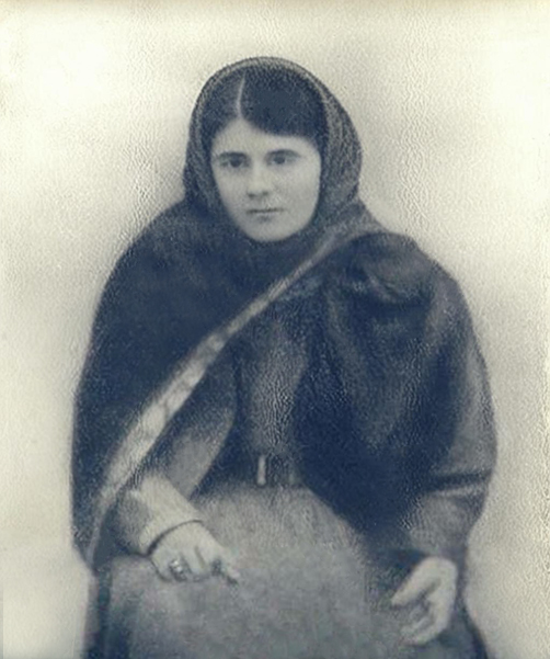 The first Muslim woman to be elected as a deputy in the world